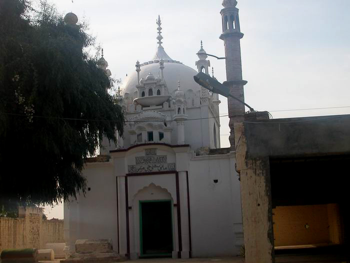 Tomb Of Sohni in Shahdadpur, Sindh, Pakistan